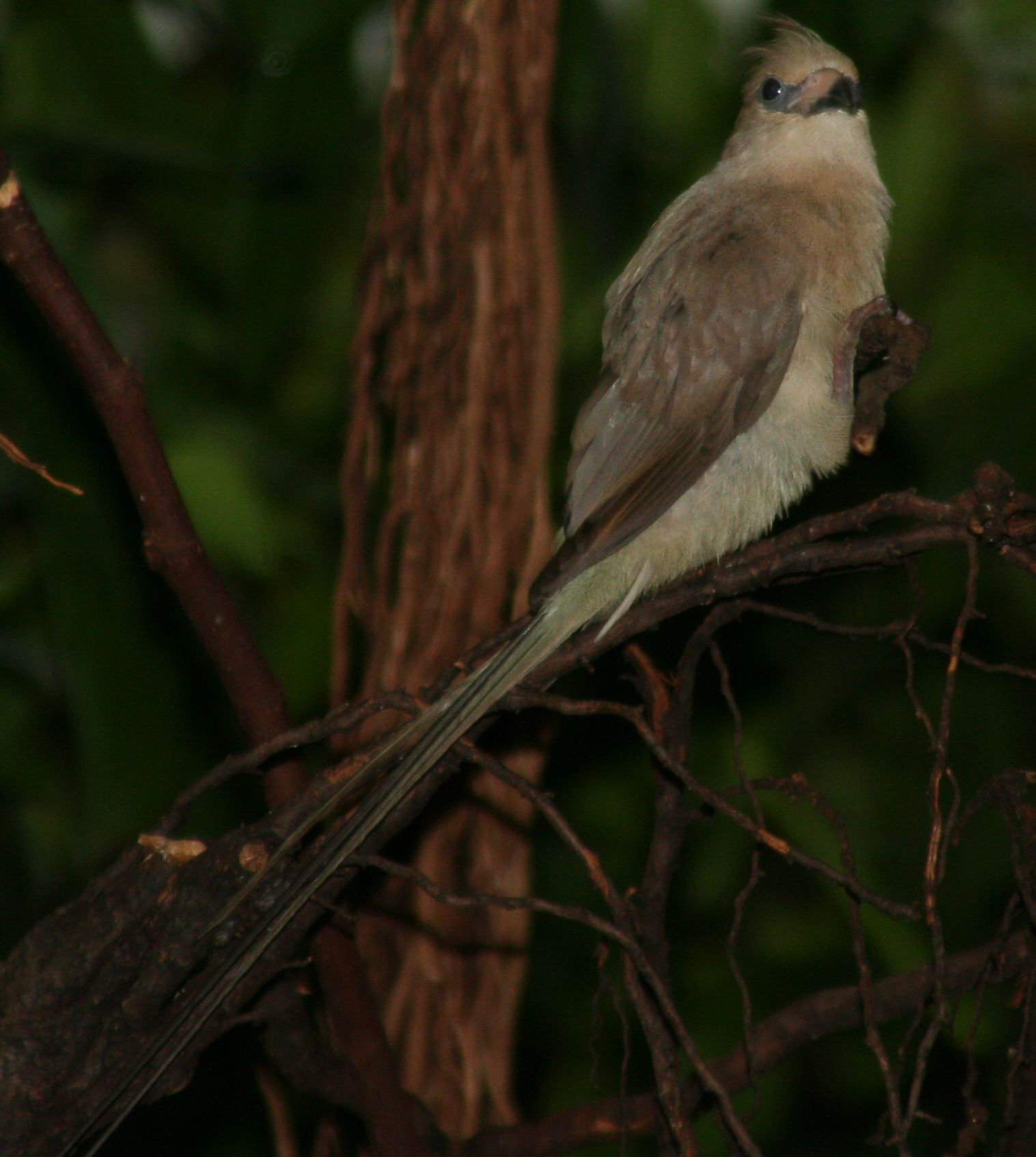 Urocolius macrourus, Vogelpark Walsrode